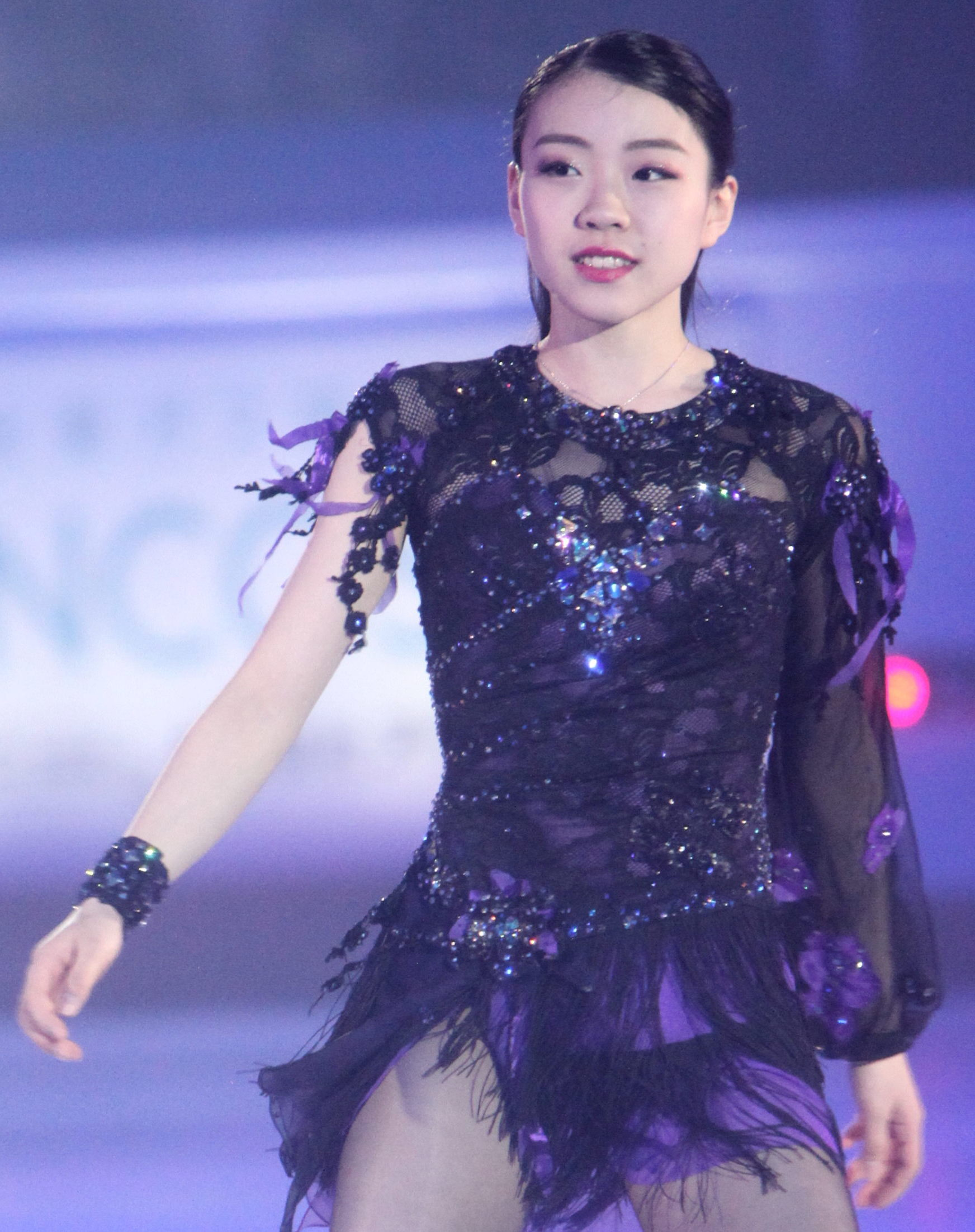 Rika Kihira during the gala at the Internationaux de France de Patinage 2018.